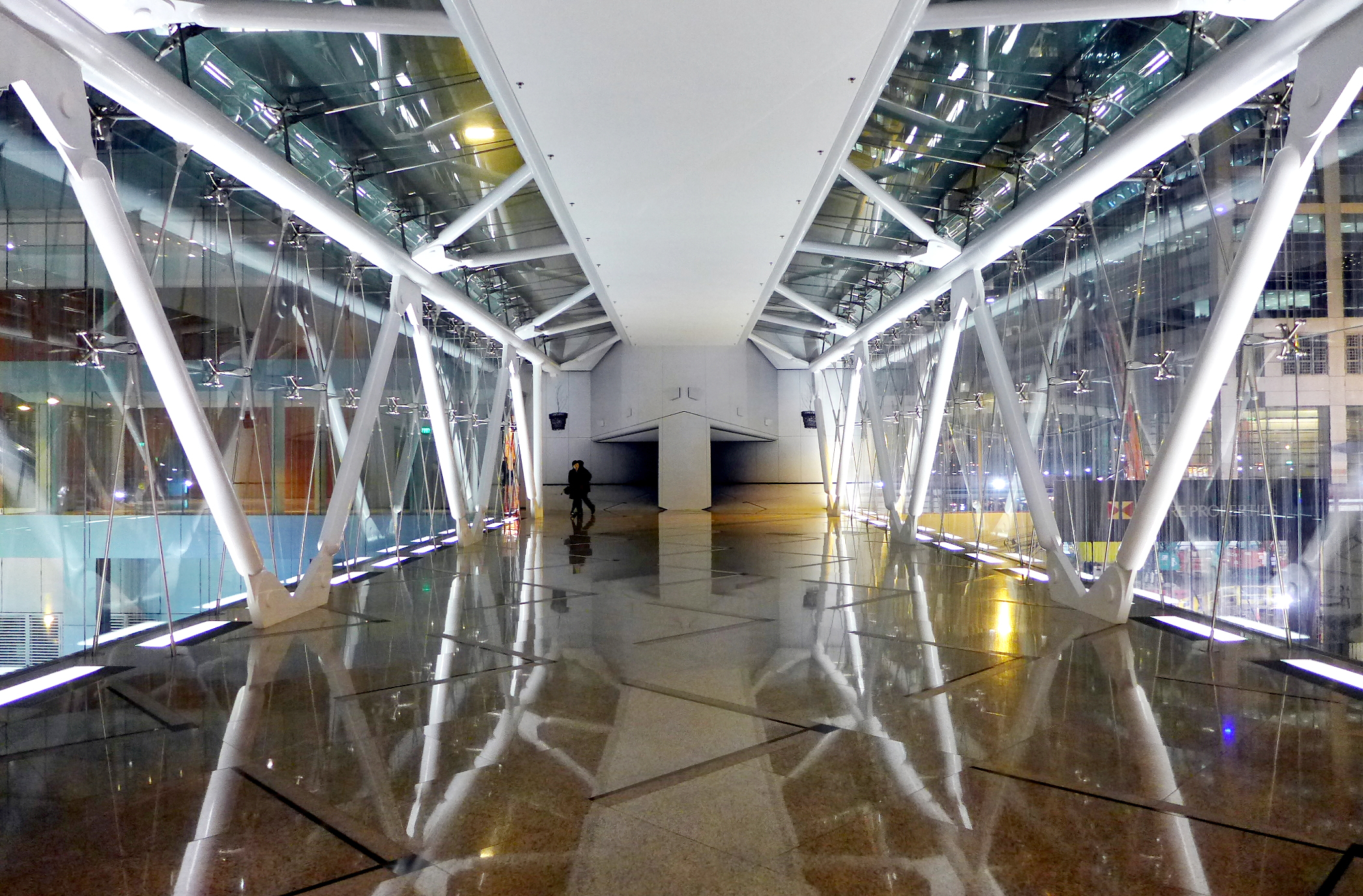 Taikoo Place Bridge to Cornwall House